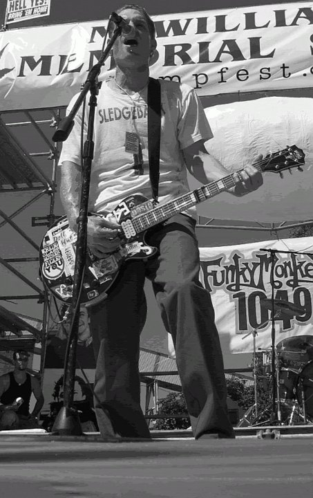 Gabor Szakacsi performing in Seattle. (2006)